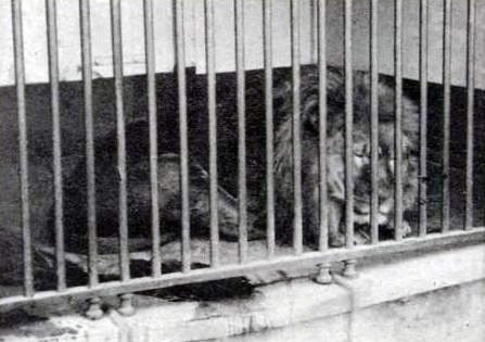 Only known photo of a live Cape Lion, in Jardin des Plantes, Paris